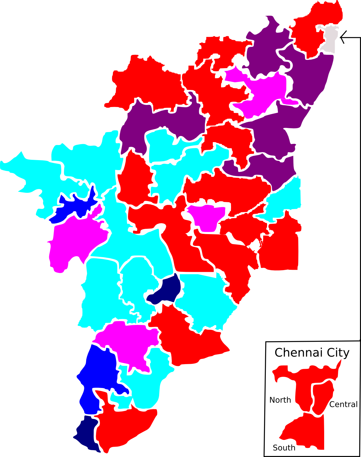 2004 Lok Sabha Election map for Tamil Nadu. Map is based on ECI drawn map. Results are based on ECI website.